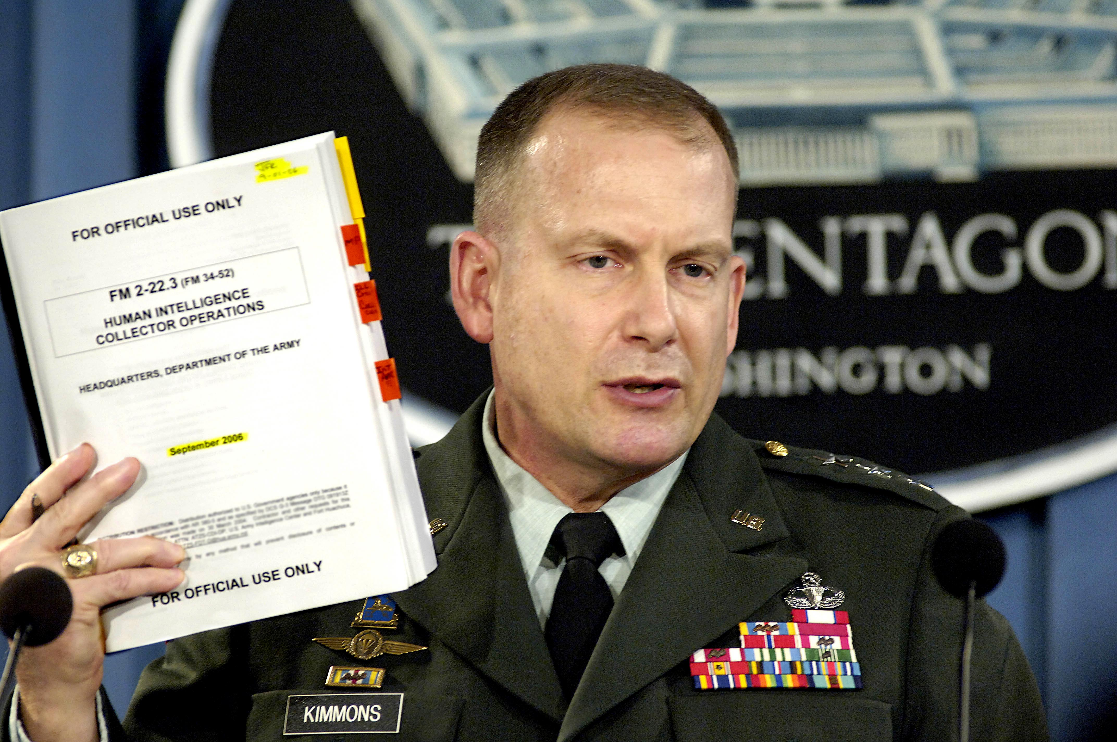 Lt. Gen. John Kimmons, U.S. Army, holds up a copy of the Army Field Manual, FM 2-22.3, Human Intelligence Collector Operations as he briefs reporters on the details of the manual in the Pentagon on Sept. 6, 2006. The manual details guidelines for the interrogation of detainees in U.S. military custody. Kimmons joined Assistant Secretary of Defense for Detainee Affairs Cully Stimson, who discussed the newly adopted Department of Defense Directive 2310.01E, which is the principal document within the department dealing with all aspects of the detainee program.